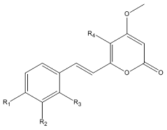 Structure of first class of kavalactones (lacking 5,6-MDO ring) for use on Kavalactones page. Created in ChemDraw 10.0 by Yidele, July 2007.